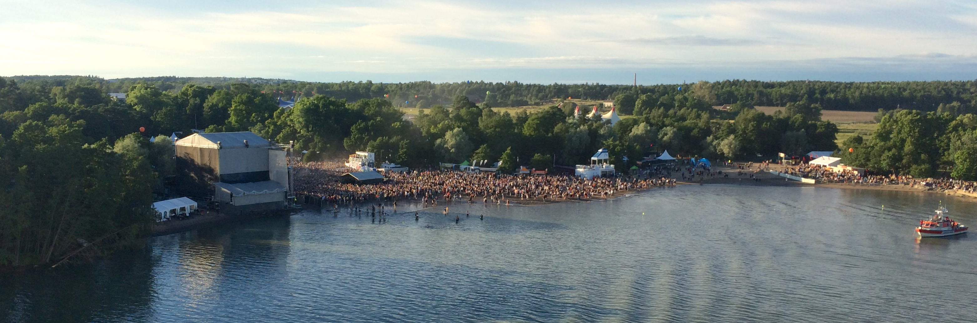 Ruisrock festival seen from MS Baltic Princess.